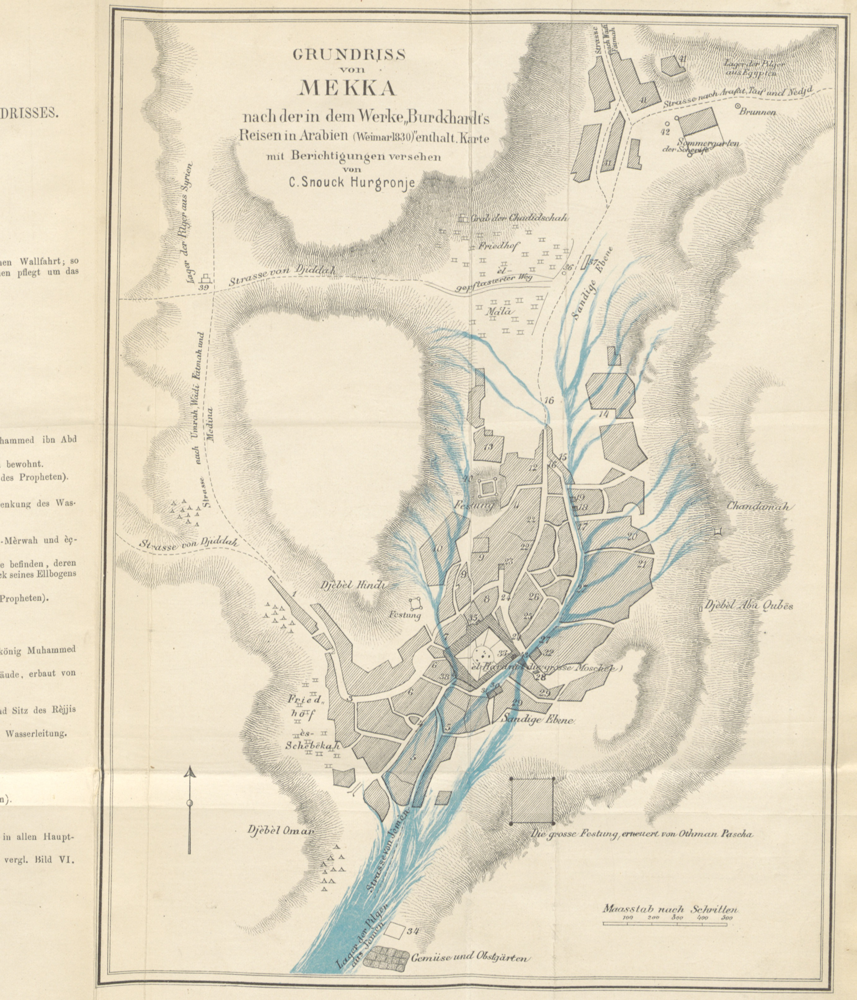 View this map on the BL Georeferencer service. Image taken from: Title: "Mekka" Author: HURGRONJE, Christiaan Snouck. Shelfmark: "British Library HMNTS 10077.h.4.", "British Library OC W 2425" Volume: 01 Page: 273 Place of Publishing: Haag Date of Publishing: 1888 Issuance: monographic Identifier: 001774071 Explore: Find this item in the British Library catalogue, 'Explore'. Download the PDF for this book (volume: 01) Image found on book scan 273 (NB not necessarily a page number) Download the OCR-derived text for this volume: (plain text) or (json) Click here to see all the illustrations in this book and click here to browse other illustrations published in books in the same year. Order a higher quality version from here.